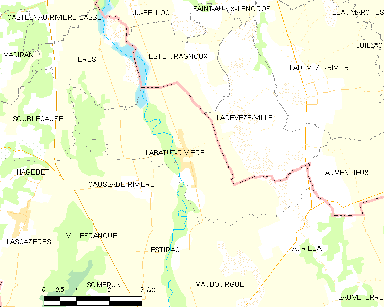 Map of French municipality